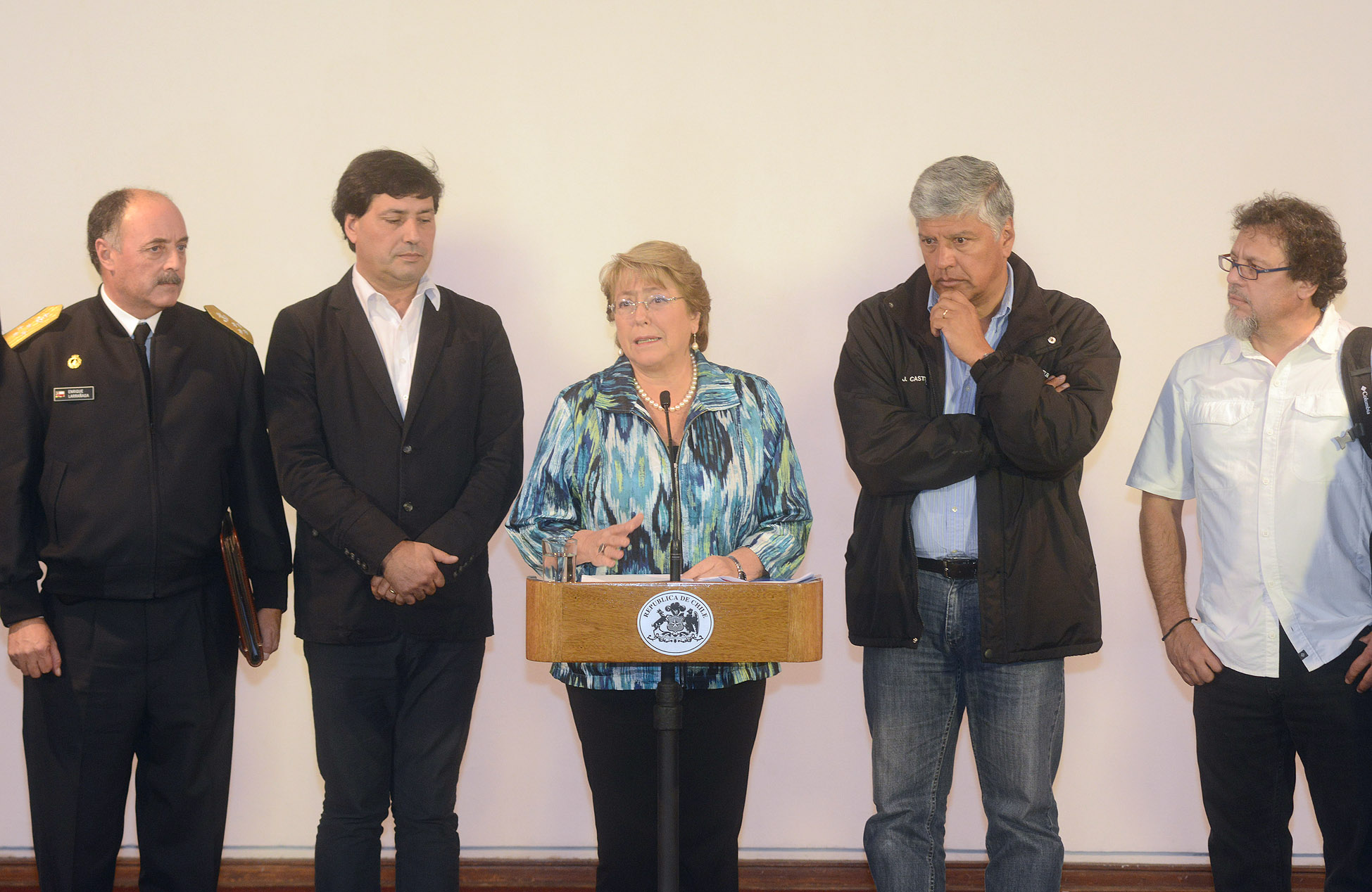 The Chilean president Michelle Bachelete makes statements regarding the declaration of emergency in Valparaíso following a catastrophic fire occuring from the 12 April, 2014.